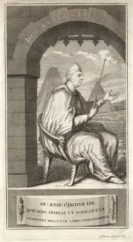 Samuel Wesley (poet)